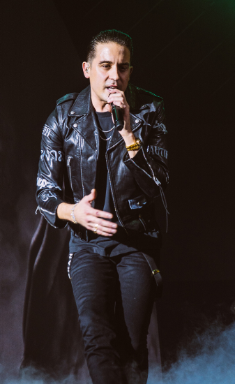 Shot in Rebel march March 13th, 2018 in Toronto.